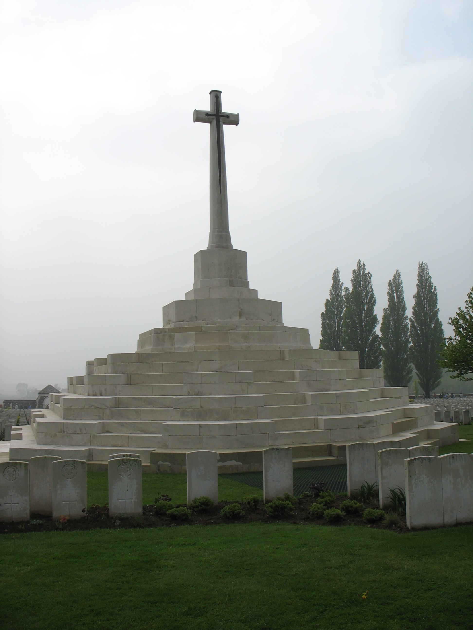 Tyne Cot War Cemetry "Cross of Sacrifice"